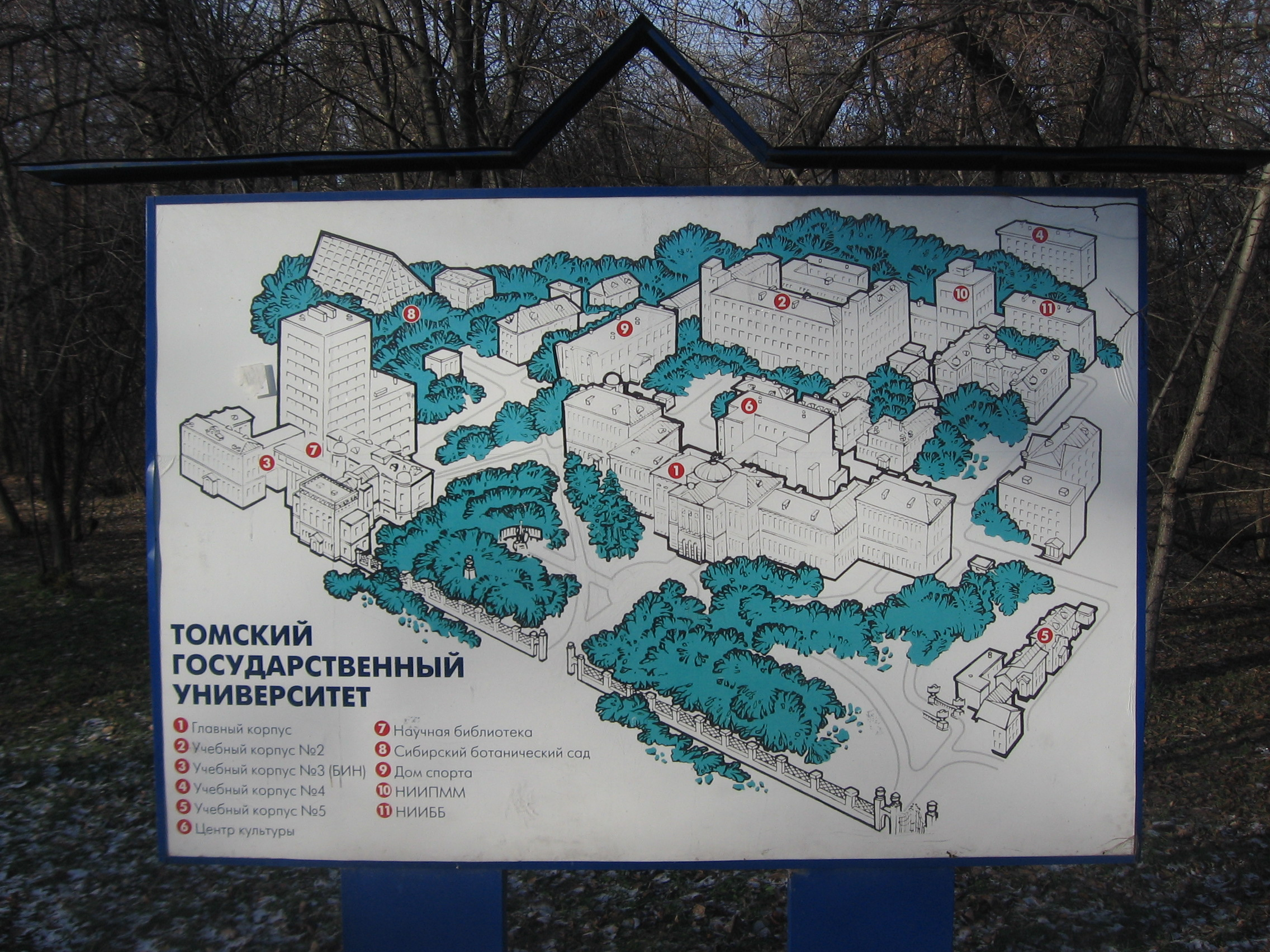 Map of Tomsk State University